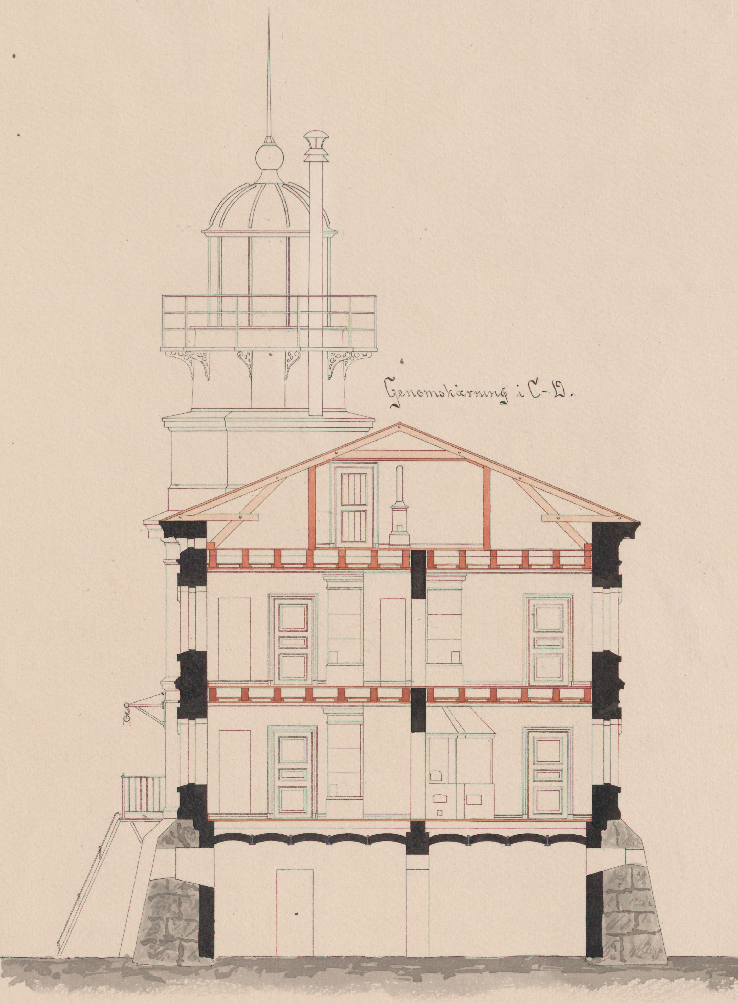 The architectural drawing of the Märket lighthouse in 1884.